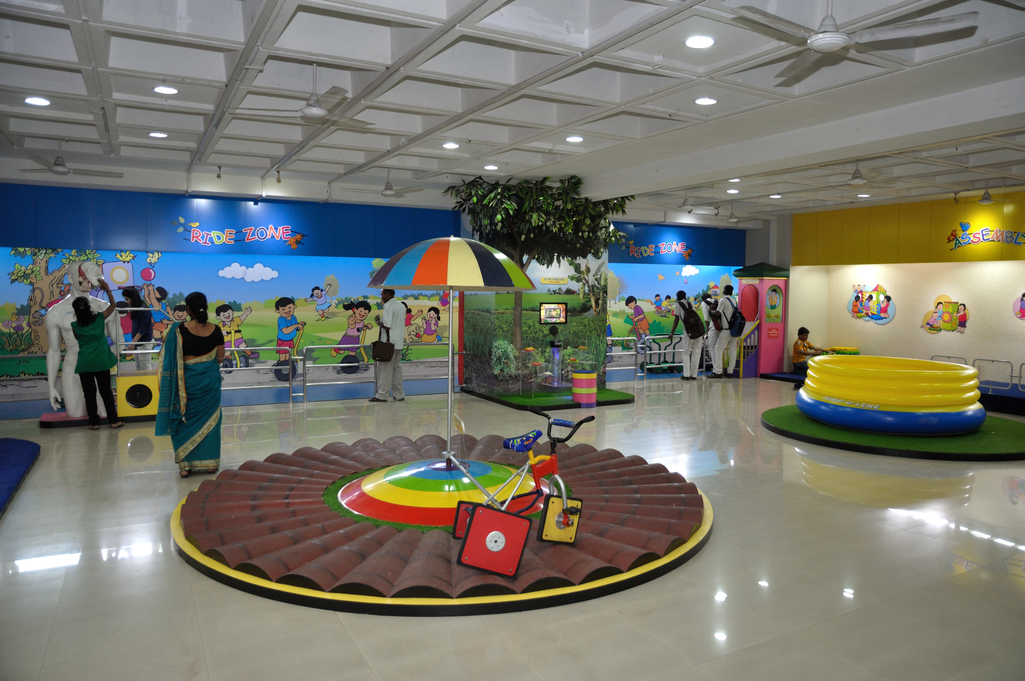 The ‘Children’s Gallery’ (4000 sq.ft.) of the 'Birla Industrial & Technological Museum', Kolkata, opened for the public on November 14, 2012 as part of the nationwide celebration of Children’s Day.